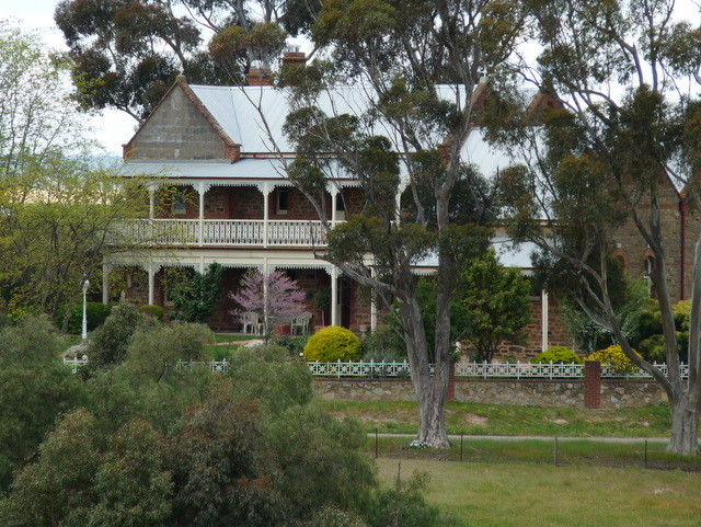 The former Kapunda convent overlooking the Kapunda mine site